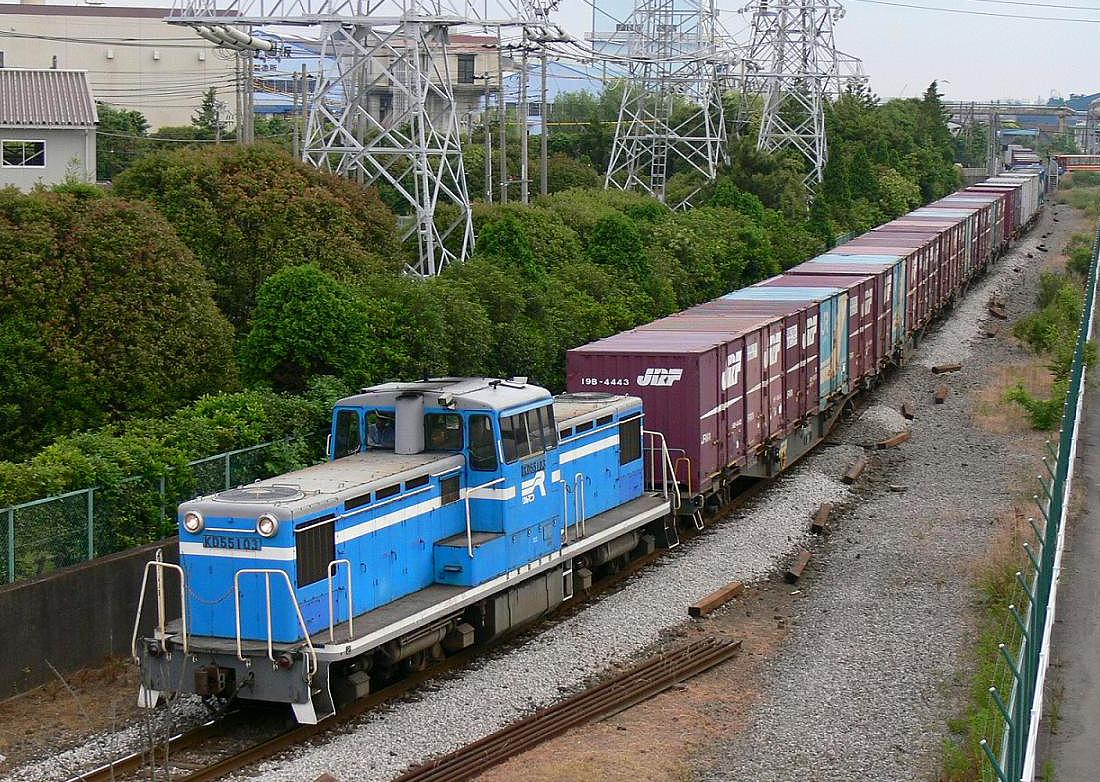 Keiyou rinkai Railway Rinkai-line(Chiba City, Chiba prefecture, Japan). It takes a picture from the public road near Rinkai-line Chiba freight station. See also 京葉臨海鉄道 for more information (written in Japanese).